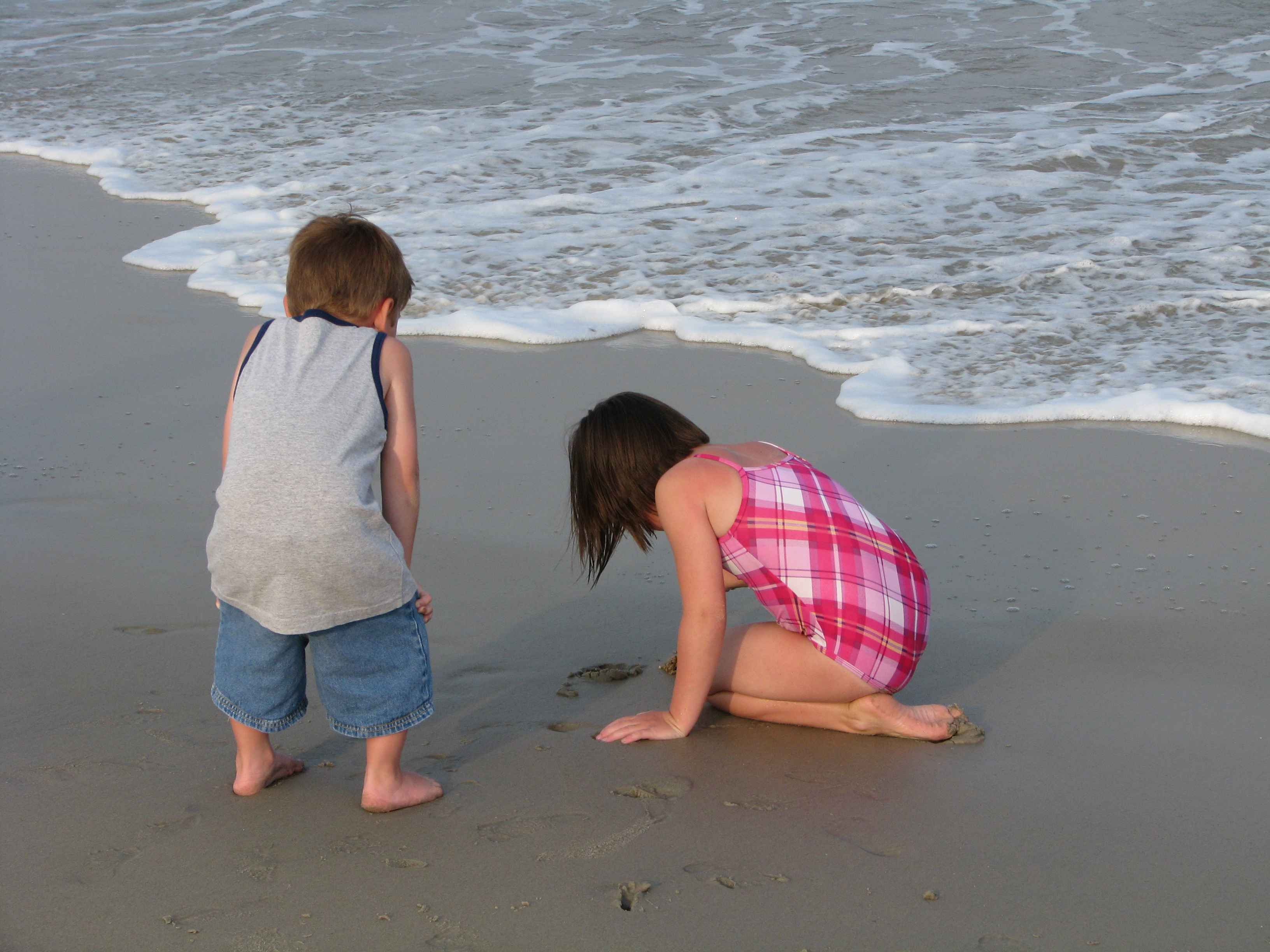 Image title: A day at the beach Image from Public domain images website